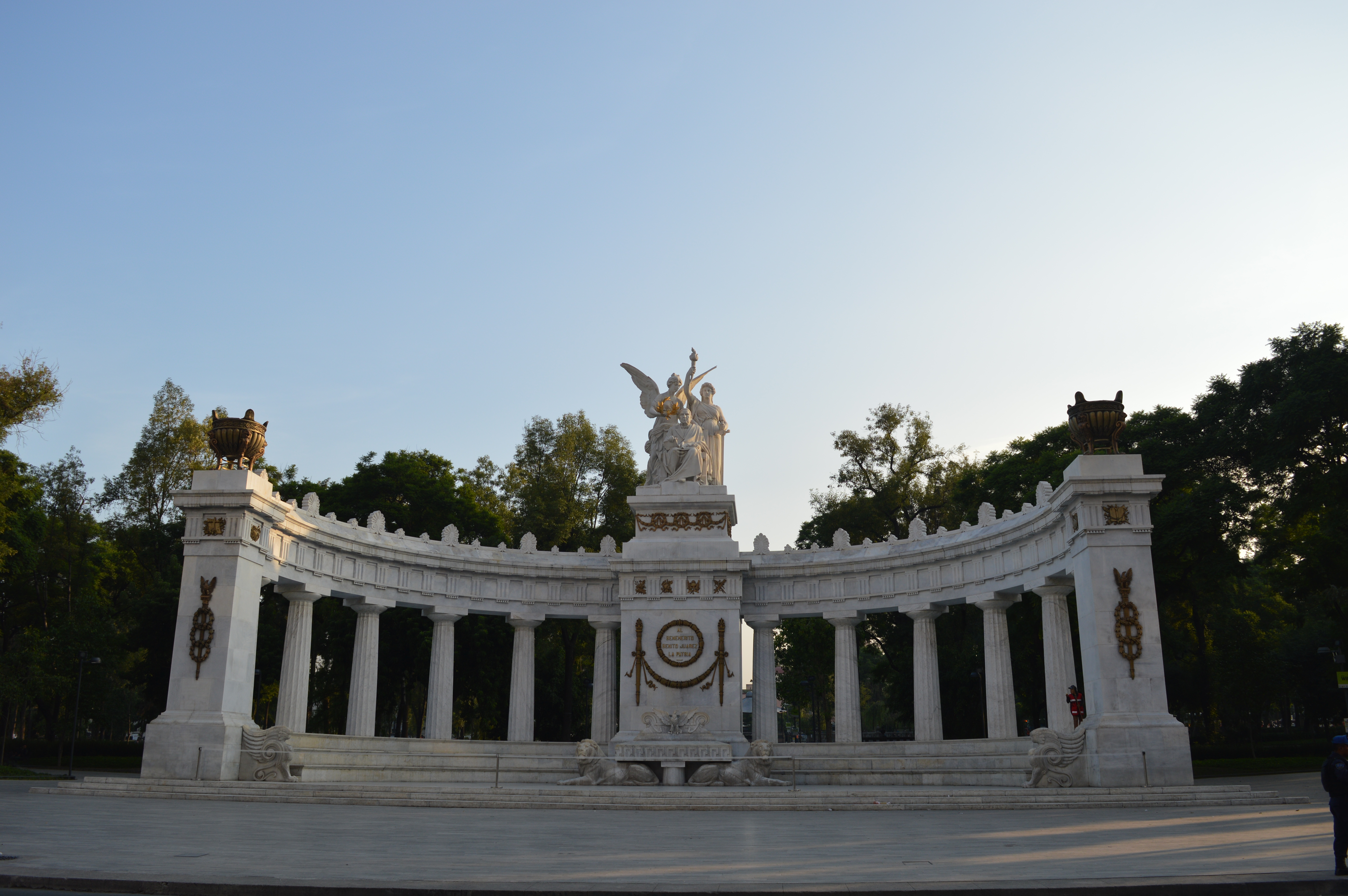 Statue at Alamada Central, Mexico City 02